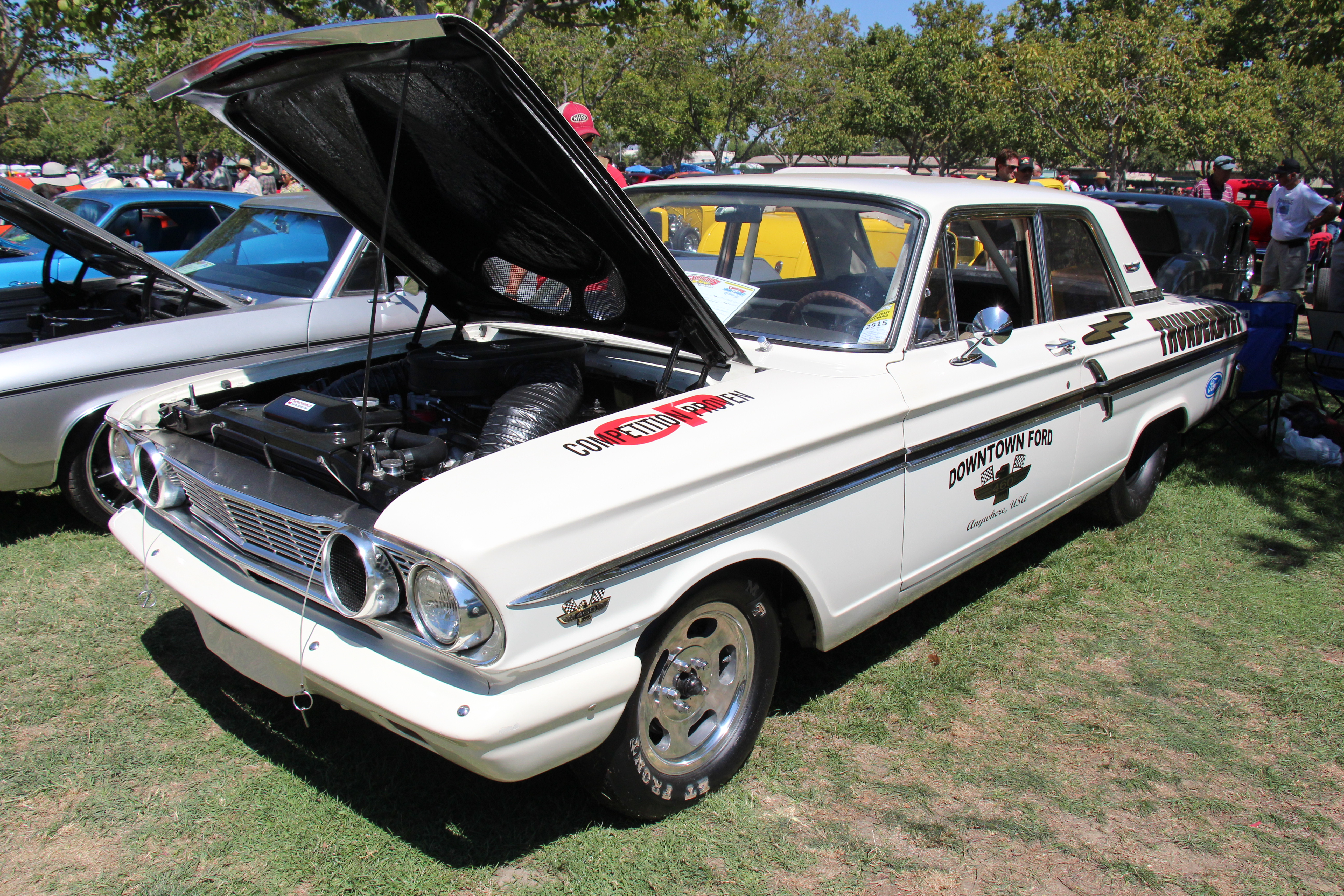 From a full size car, the Fairlane became an intermediate sized car in 1962, bridging the gap between the compact Falcon and full size Galaxie. A facelift in 1963 saw a new concave grille and in 1964 another new grille and the tail fins were gone For 1964 and 1965 models available were: base Fairlane and upmarket Fairlane 500 in 2 door and 4 door sedans, Also available were the Fairlane 500 and Sports Coupe 2 door hardtops. Ford introduced a Ford Fairlane Thunderbolt for drag racing in 1964, heavily modified to incorporate Ford's 427 cu in V8 race engine with two 4 barrel carburetors, ram-air through the openings left by deleting the inboard headlights, equal-length headers, trunk-mounted battery, fiberglass hood, doors, fenders and front bumper, acrylic glass windows, and other lightweight options. The cars wore Fairlane 500 trim, and only in the 2 door sedan. Between 111 and 127 were made and delivered 657 hp